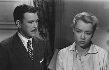 Luis Otero y Olga Zubarry